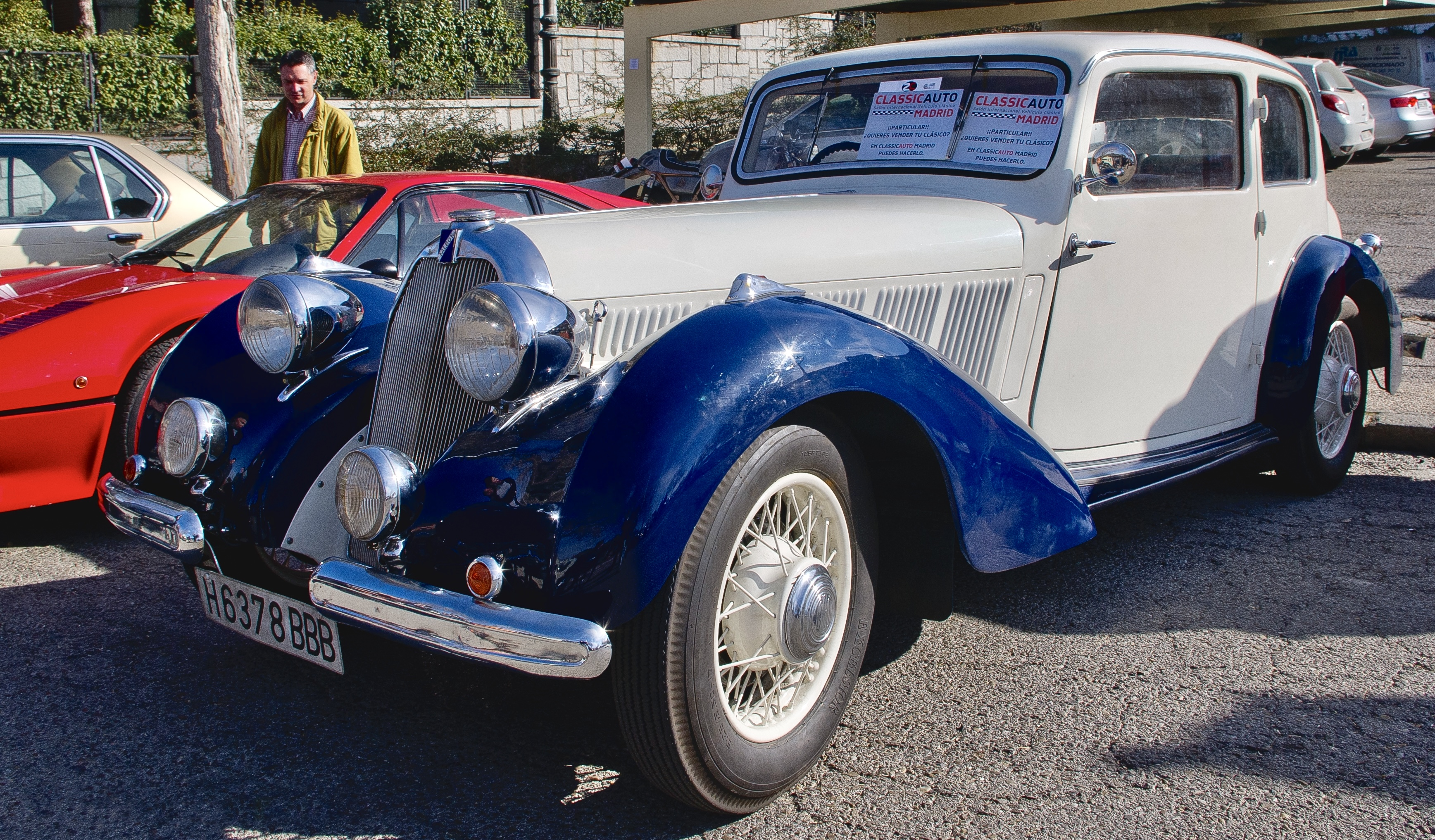 Talbot T-120 Baby Coach